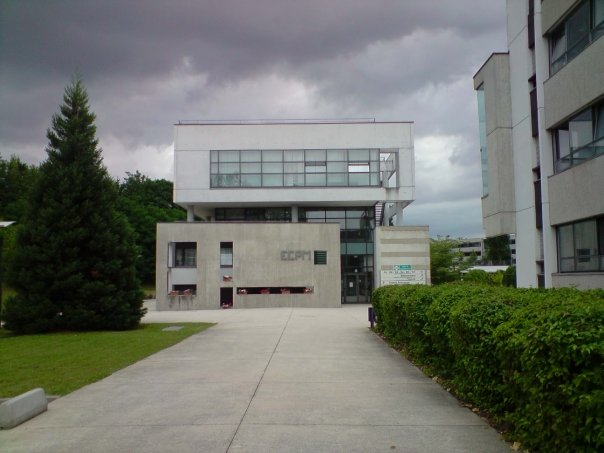 ECPM School in Strasbourg France: Main entry